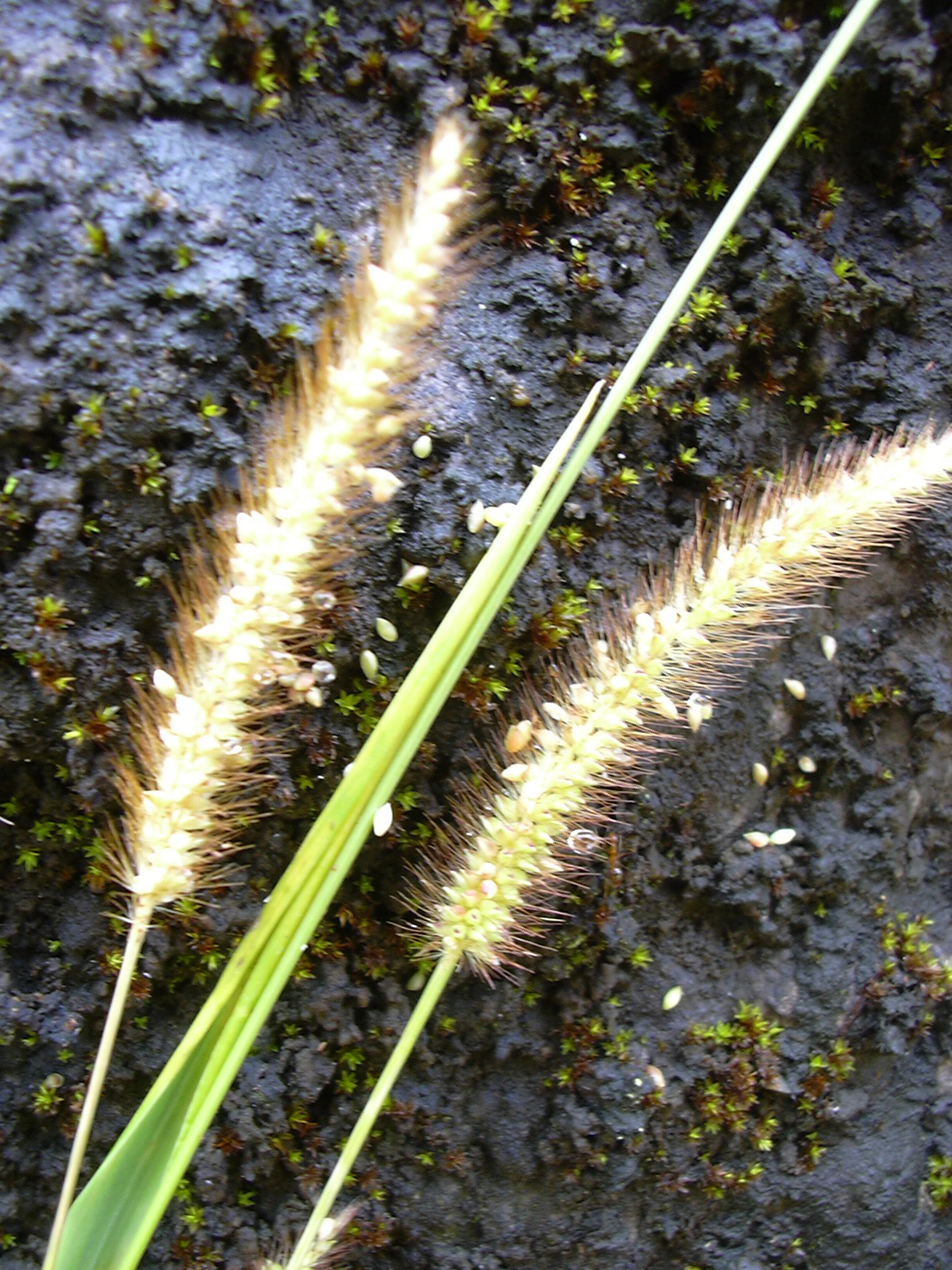 Setaria parviflora (seedheads). Location: Maui, Kopiliula